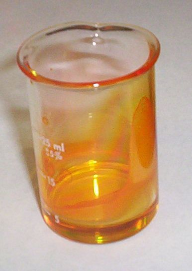 A sample of , open to the air, slowly reacting with H2O. Picture by User:Walkerma, taken summer 2005.